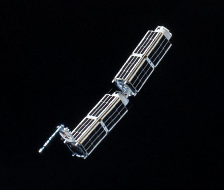 The first pair of the 28 Planet Labs Earth Observation satellites leave the ISS. You don't usually get this motion-picture quality perspective. But Koichi Wakata of JAXA was there for the money shot. Congrats to Planet Labs and their partners in this grand adventure! NASA description: The NanoRacks CubeSat Deployer (NRCSD), in the grasp of the Kibo laboratory robotic arm, is photographed by an Expedition 38 crew member on the International Space Station as NanoRacks deploys a set of Planet Labs Doves. The CubeSats program contains a variety of experiments such as Earth observations and advanced electronics testing. Station solar array panels, Earth's horizon and the blackness of space provide the backdrop for the scene.